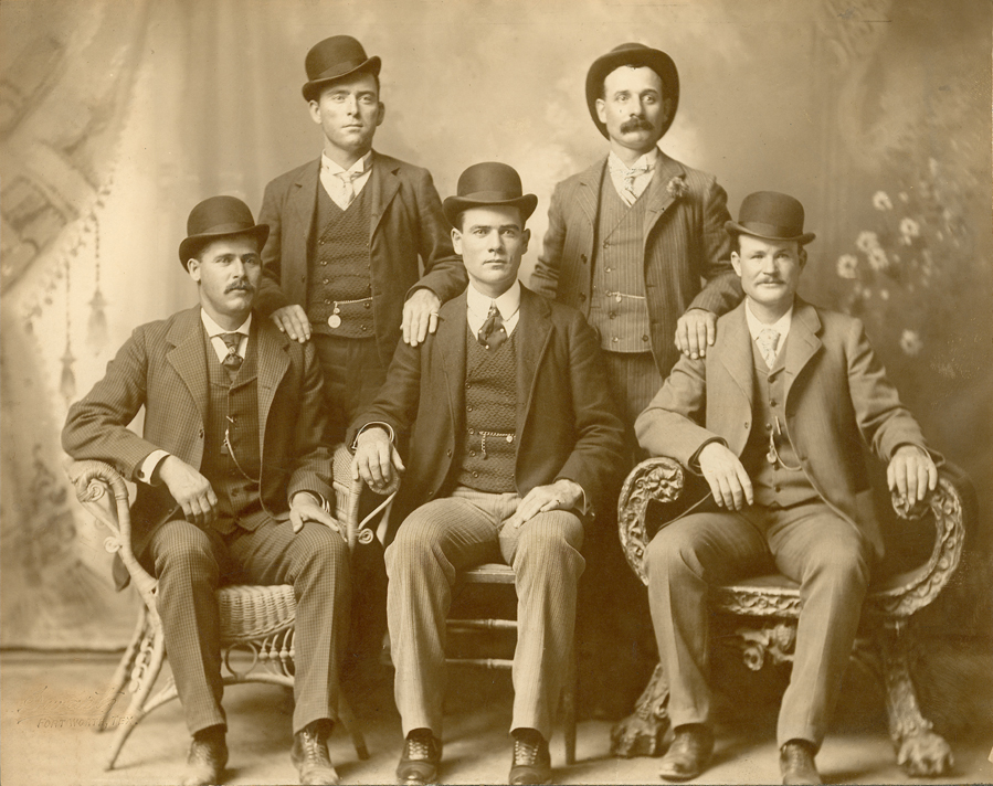 This image is known as the "Fort Worth Five Photograph." Front row left to right: Harry A. Longabaugh, alias the Sundance Kid, Ben Kilpatrick, alias the Tall Texan, Robert Leroy Parker, alias Butch Cassidy; Standing: Will Carver & Harvey Logan, alias Kid Curry; Fort Worth, Texas, 1900.